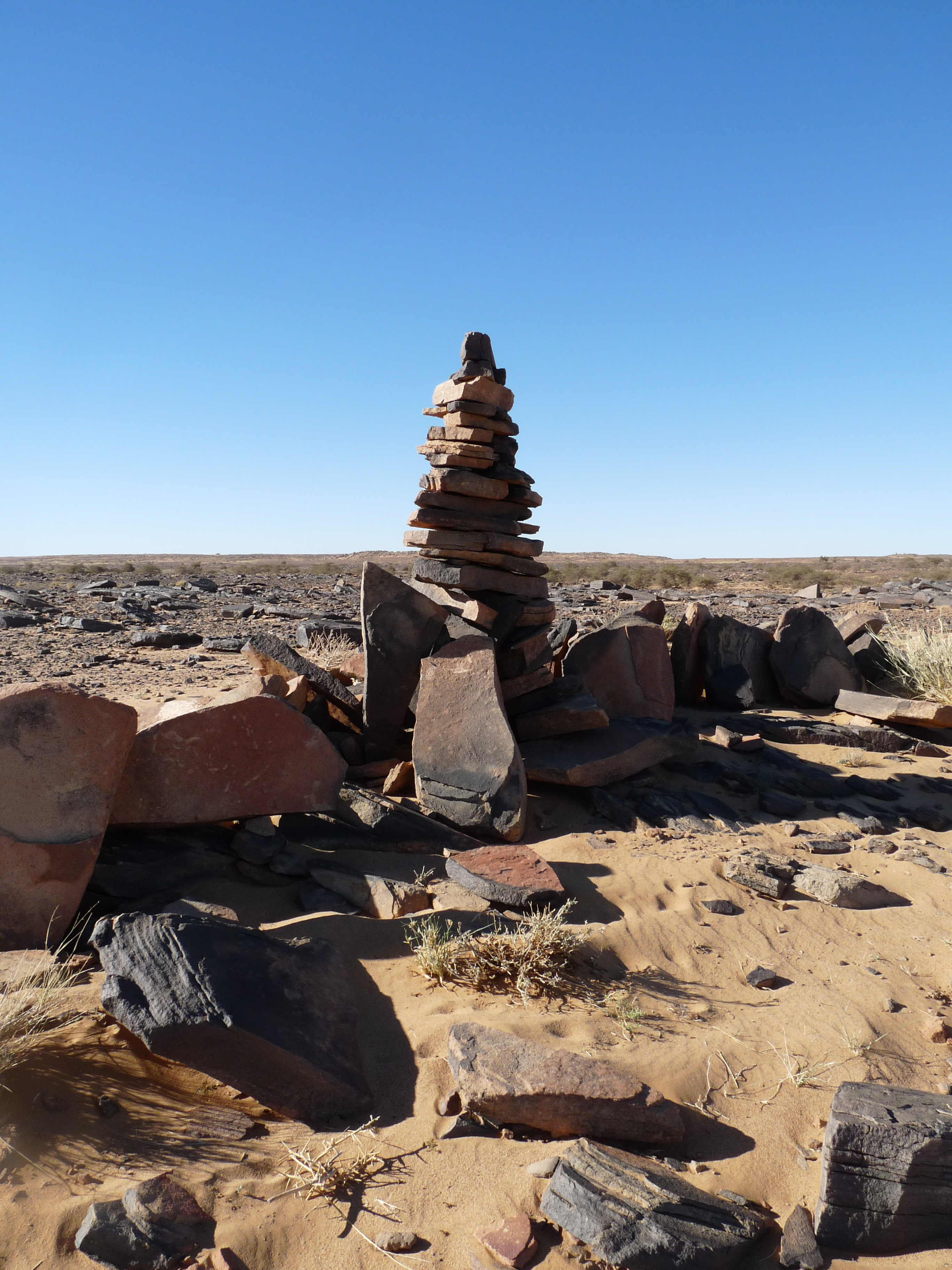 Cairn (NOT scarecrow) in Adrar (Mauritania)